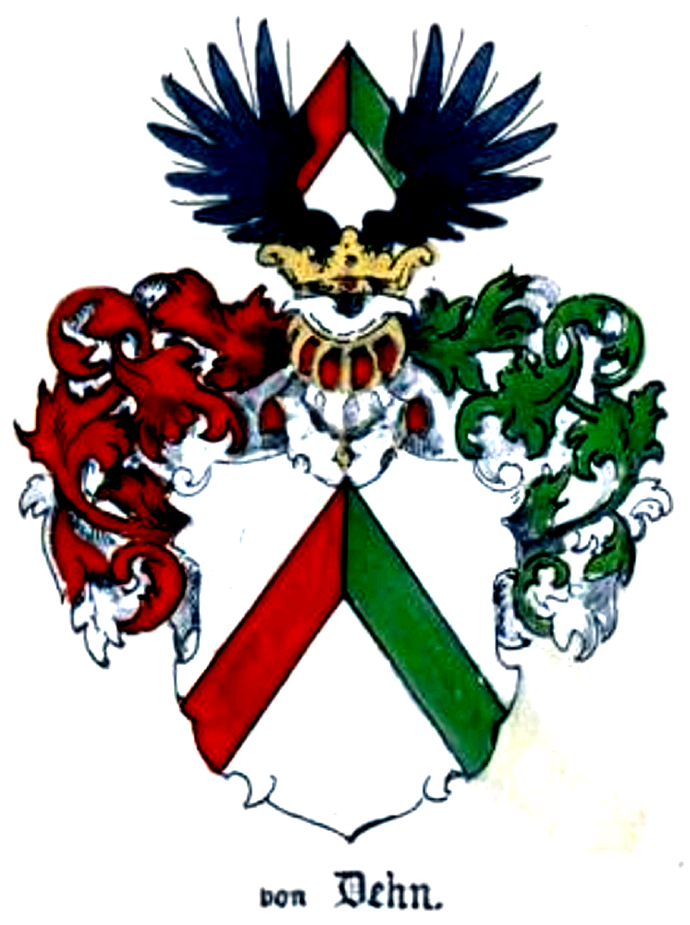 Coat of arms of Von Dehn family